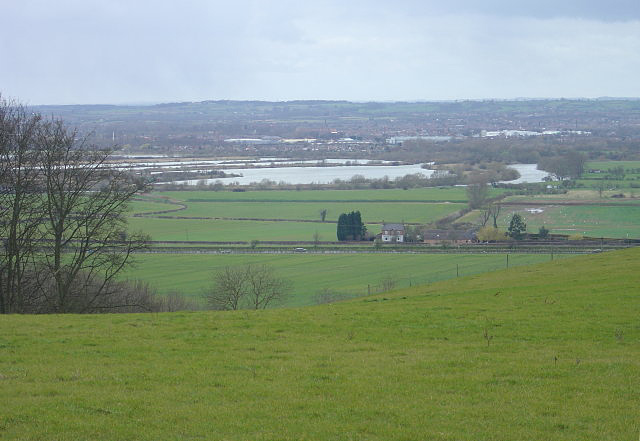 Trent Valley from Gotham Hill The large stretches of water are Attenborough gravel pits, with the sweep of the River Trent in front and to the right of them. The swathes of lighter buildings beyond are modern industrial and retail developments in Long Eaton.